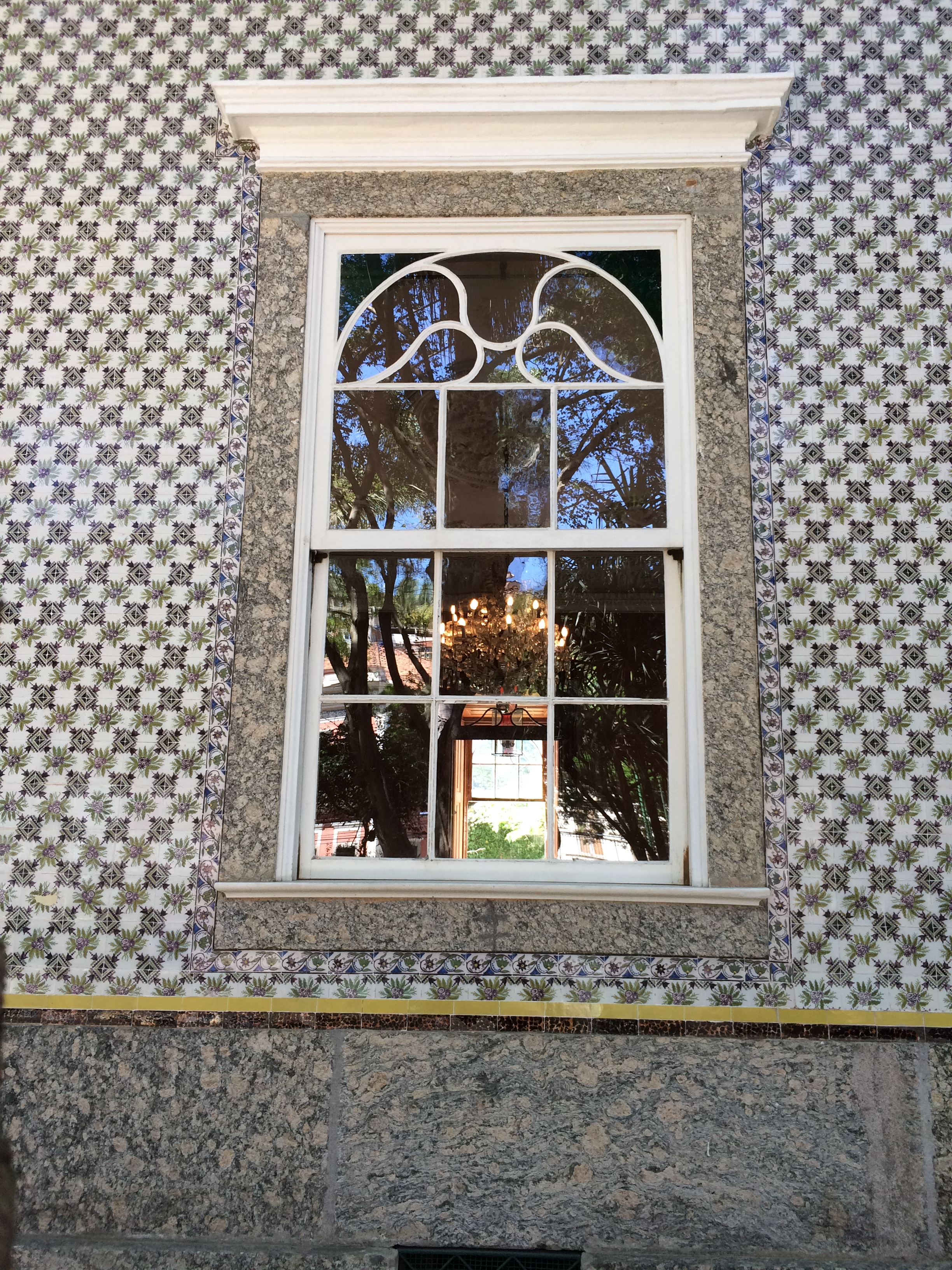 Window of Jambeiro Manor, São Domingos, Niterói, Rio de Janeiro, Brazil.